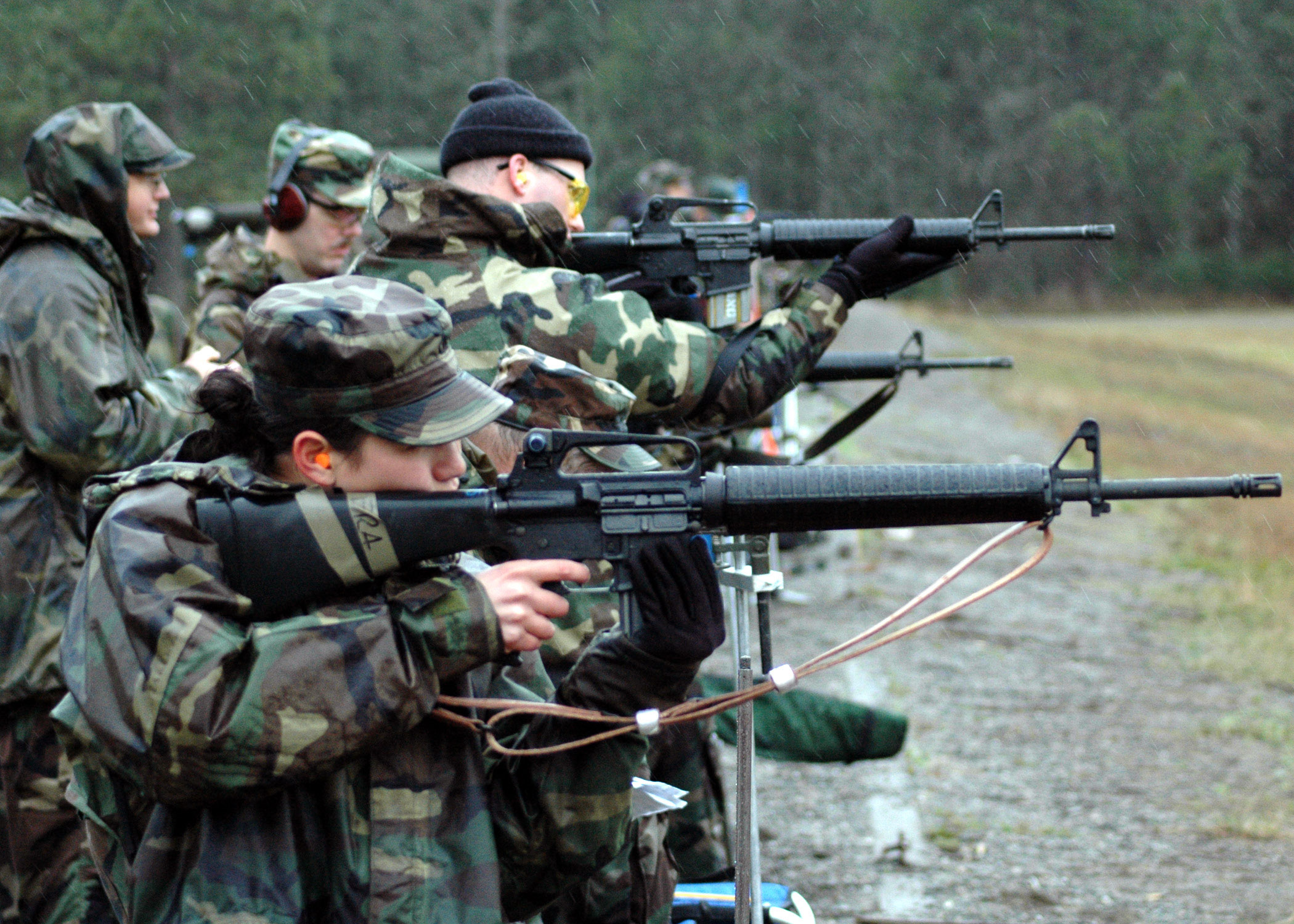 Fort Lewis, Wash. (April 8, 2006) - Personnel from the Army, Navy and Washington State National Guard conducts a weapons qualification exercise on a cold and rainy day at Fort Lewis, Wash. U.S. Navy photo by Journalist 1st Class Dave Gordon (RELEASED)